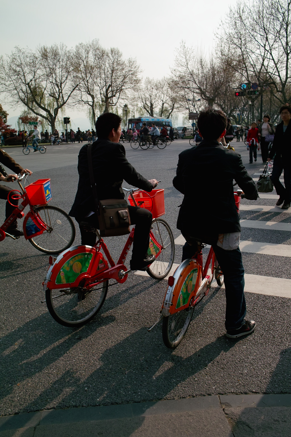 Bike to rent at Hangzhou